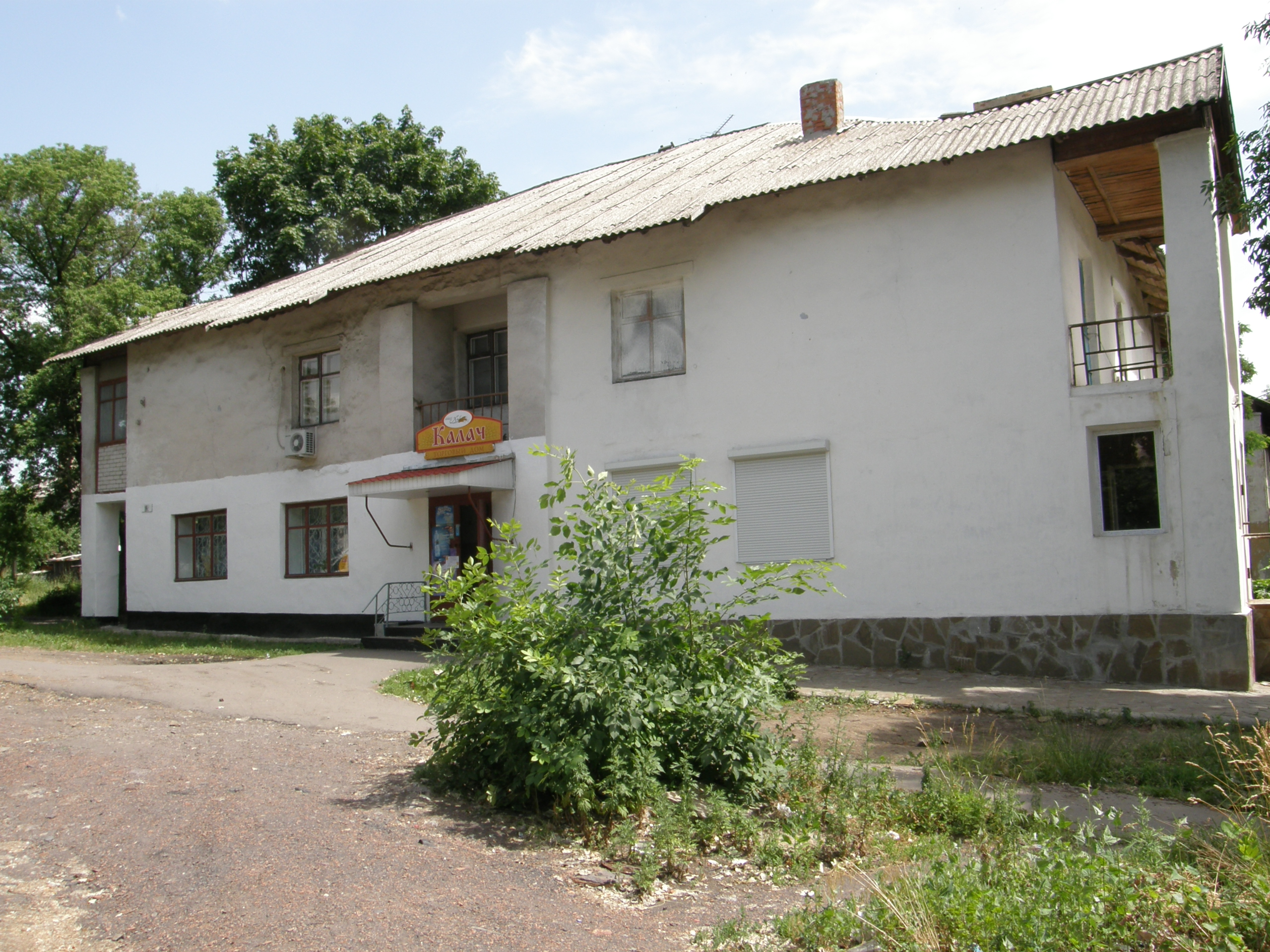 A house of E. Zherdiy